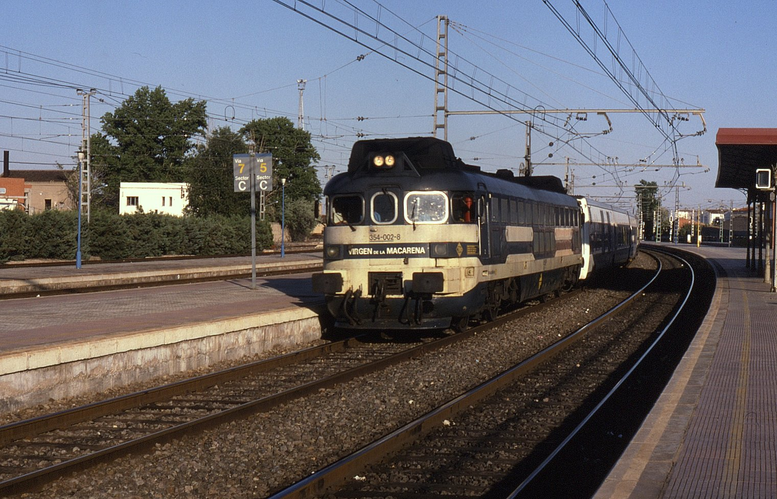 13.04.97 Alcázar de San Juan RENFE 354.002